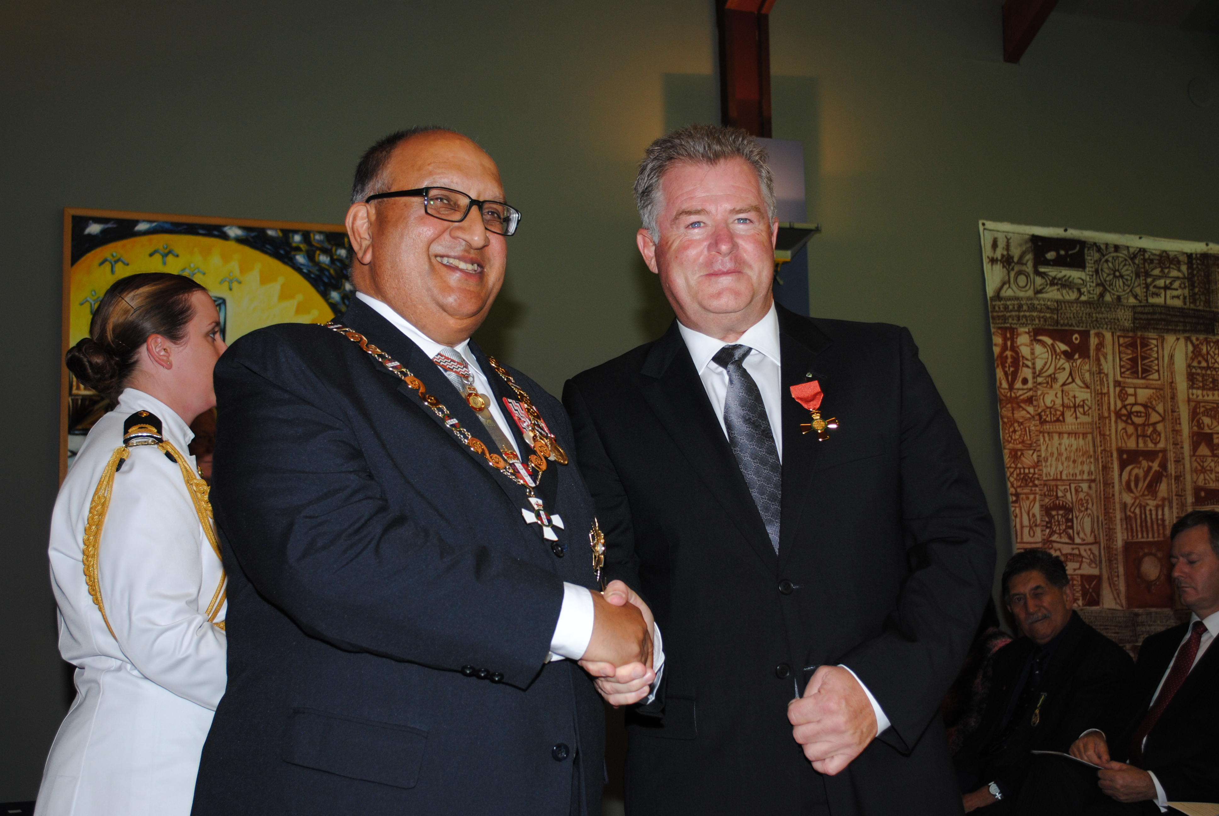 Phillip Leishman (right), after his investiture as ONZM, for services to media and the community, by the governor-general, Sir Anand Satyanand, on 7 April 2011